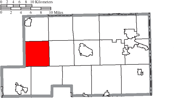 Map of the municipal and township boundaries of Mahoning County, Ohio, United States, as of the 2000 census, with the location of Berlin Township highlighted. Township borders are shown only in unincorporated areas in order to differentiate incorporated and unincorporated areas more clearly.